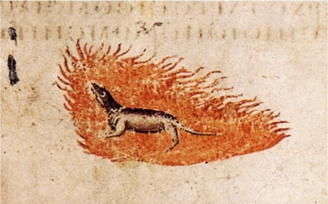 A mythical fire-dwelling salamander (Vienna Dioscurides manuscript, fol. 423 recto).